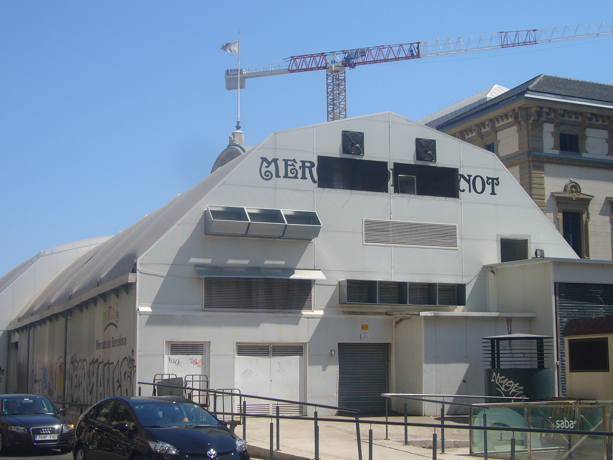 Carpa provisional del Mercat del Ninot, als jardins del Doctor Duran i Reynals (davant l'hospital clinic)